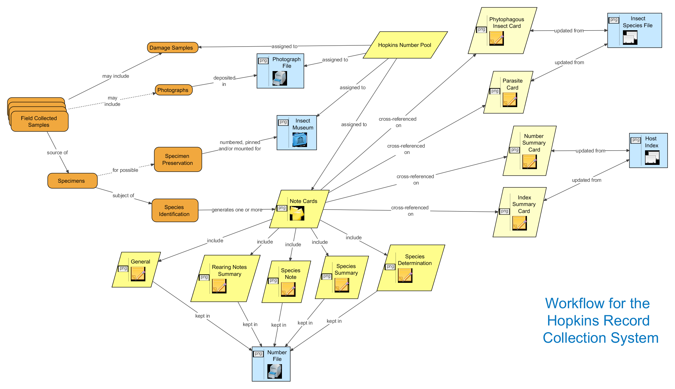 Block diagram of the steps to collecting, curating, and recording specimens that are part of the Hopkins Records System